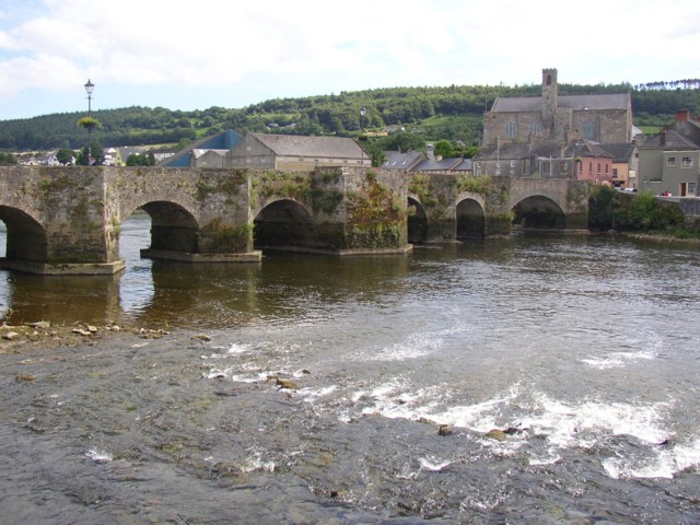 The old bridge, Carrick on Suir, Co. Tipperary. Over the river, Carrickbeg is in County Waterford.